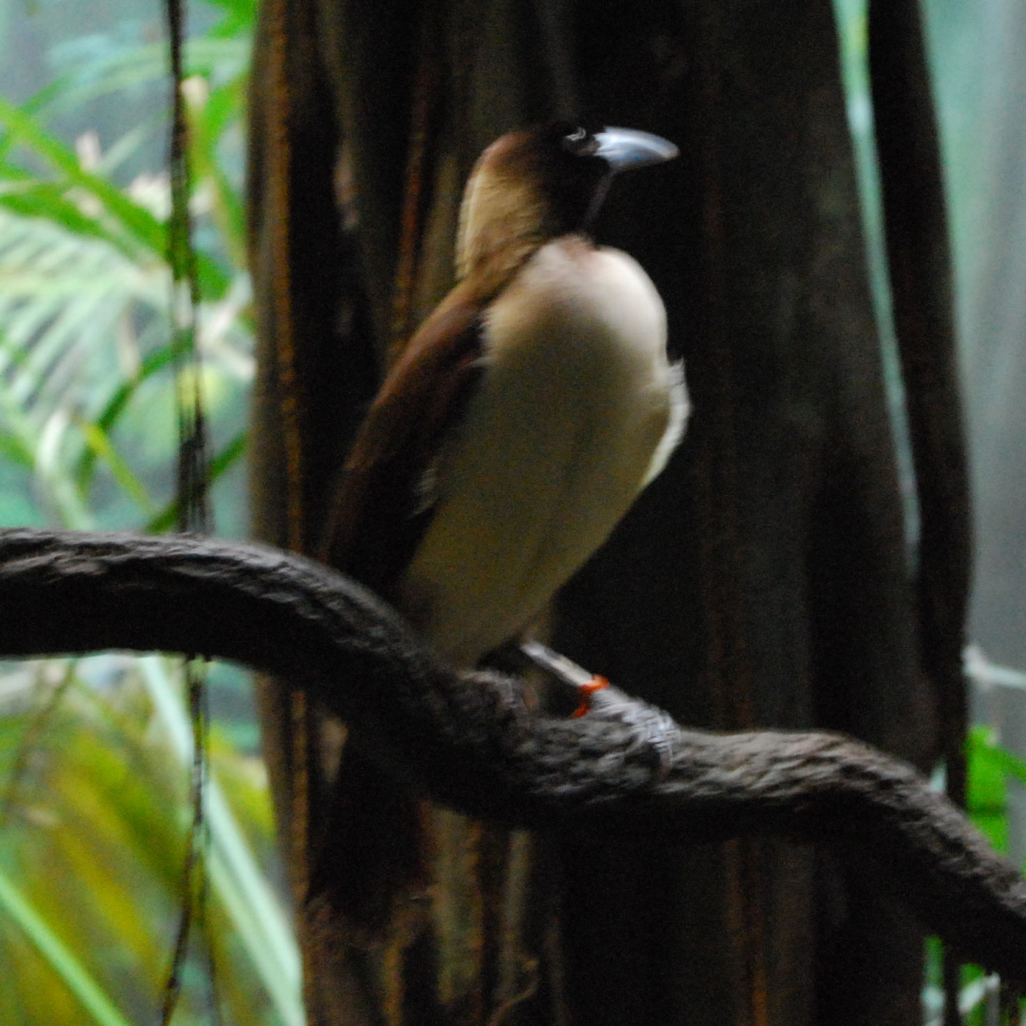 Lesser Bird of Paradise (Paradisaea minor). Female at Bronx Zoo, USA.